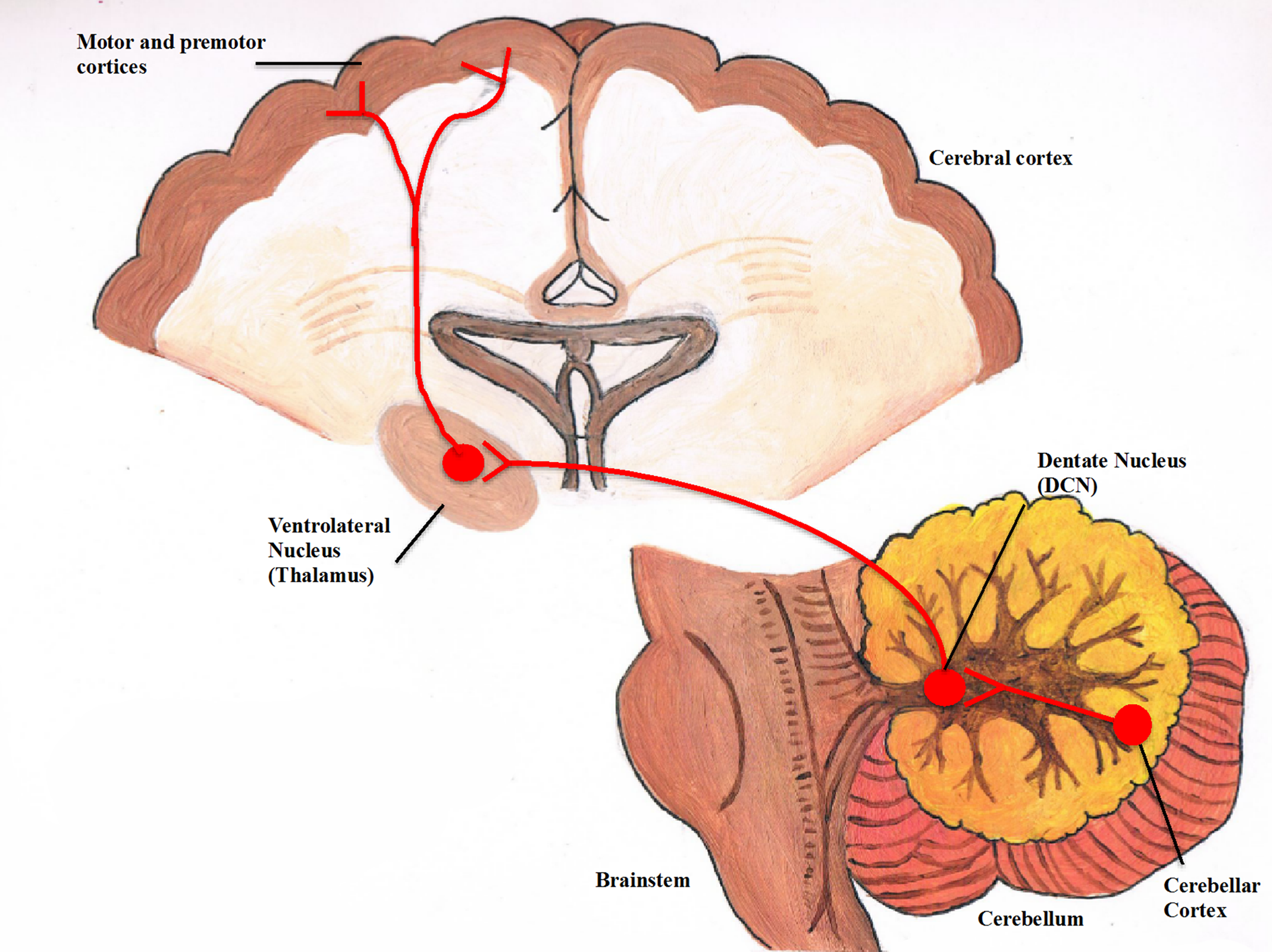 Diagramatic representation of the cerebello-dentato-thalamo-cortical pathway. The figure depicts the pathway from the cerebellum to the motor cortex, via the ventrolateral nucleus of the thalamus. The Purkinje cells in the cerebellar cortex have inhibitory synapses on the cells of the deep cerebellar nuclei, and are thought to modulate the tonic excitatory effects of the dentate-thalamo-cortical pathway on cortical excitability. (+) = excitatory synapses; (-) = inhibitory synapses. (Diagram by Allanah Harrington).